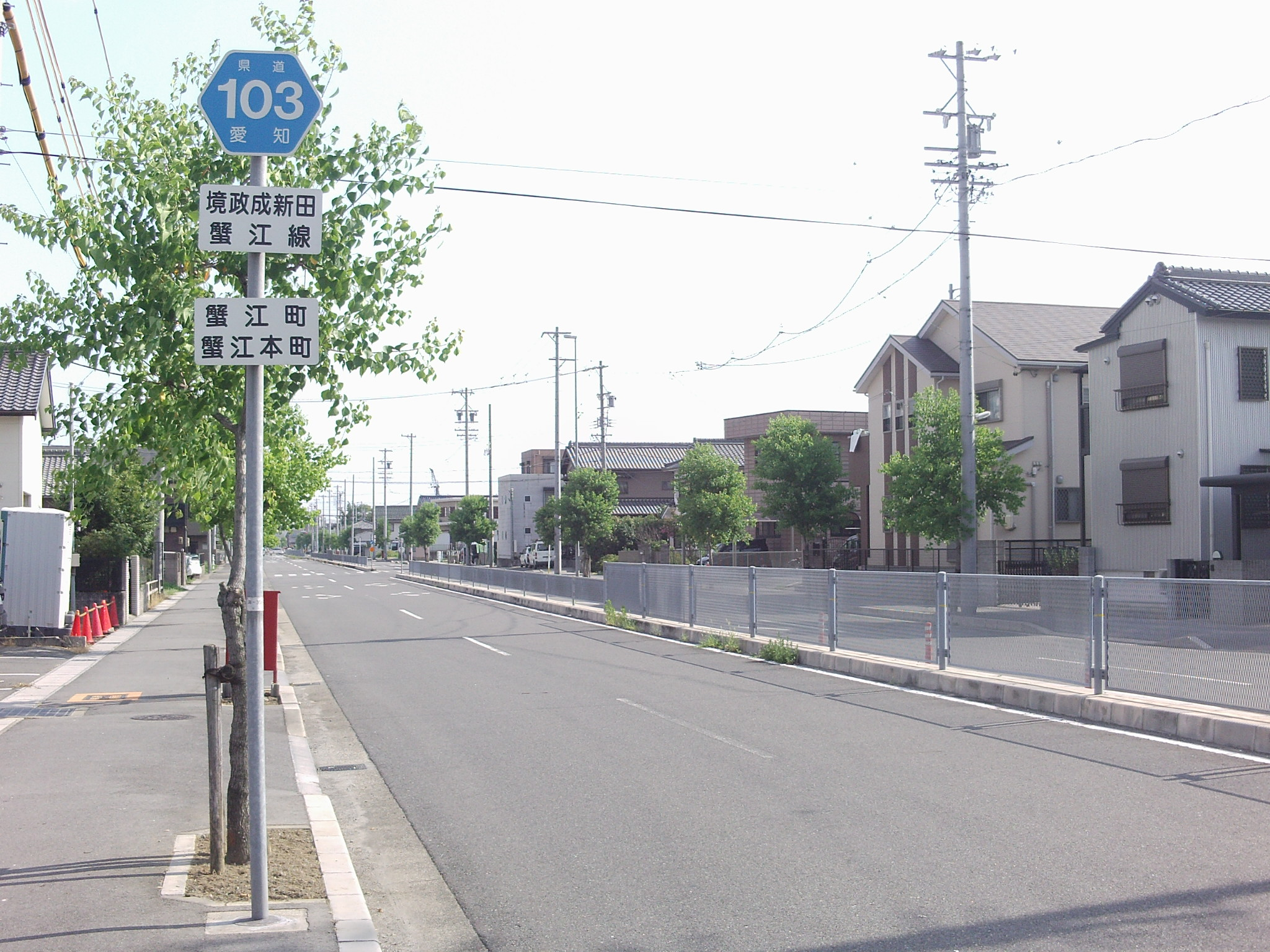 Aichi prefectural road No.103 in Kaniehonmachi, Kanie-cho, Ama-gun, Aichi.